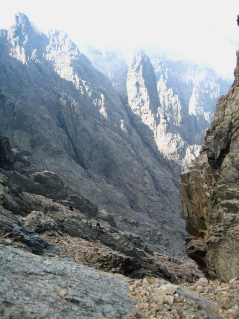 Cirque de la Solitude - the toughest part of the GR 20